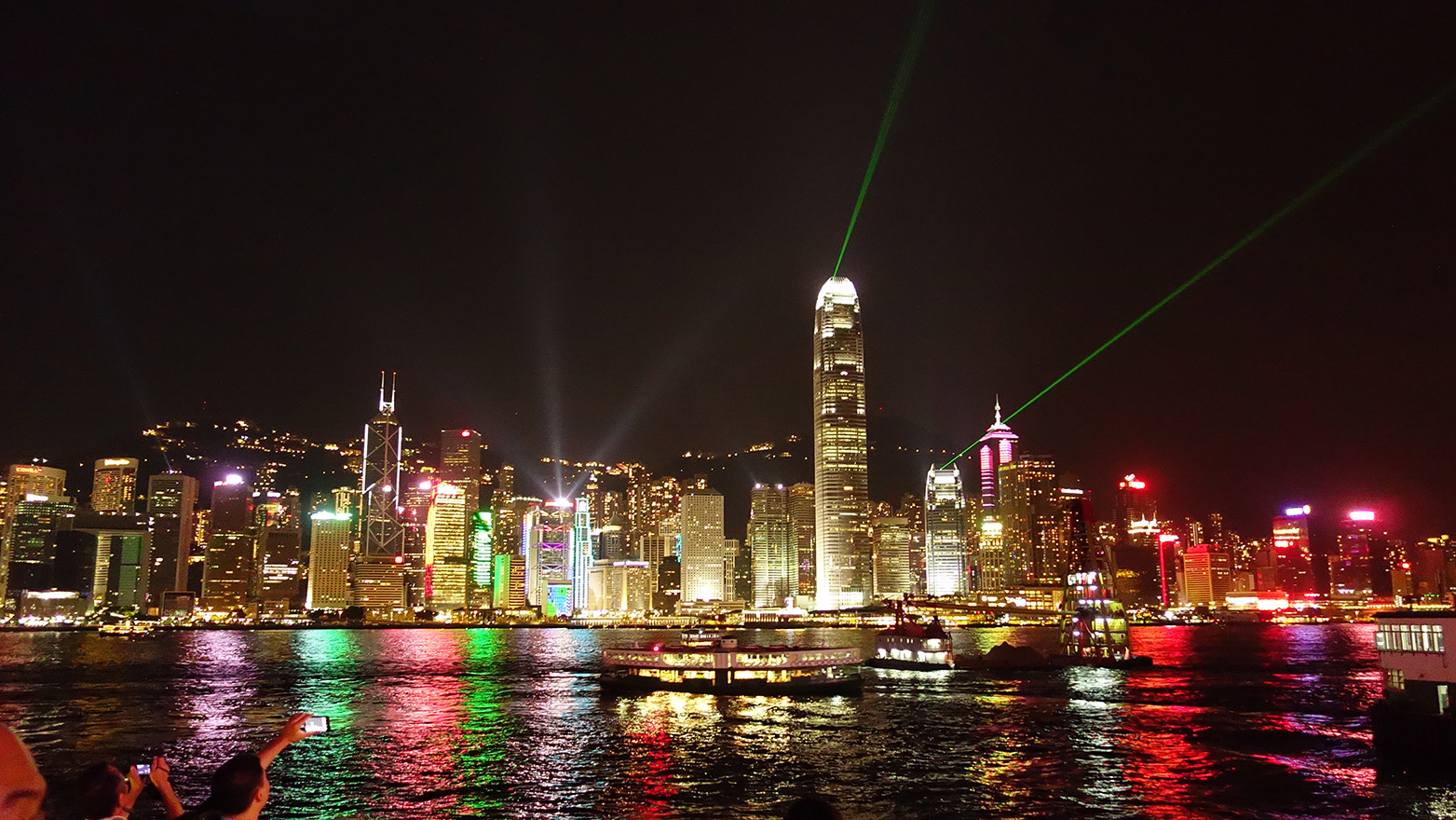 Symphony of Lights in Hong Kong harbor